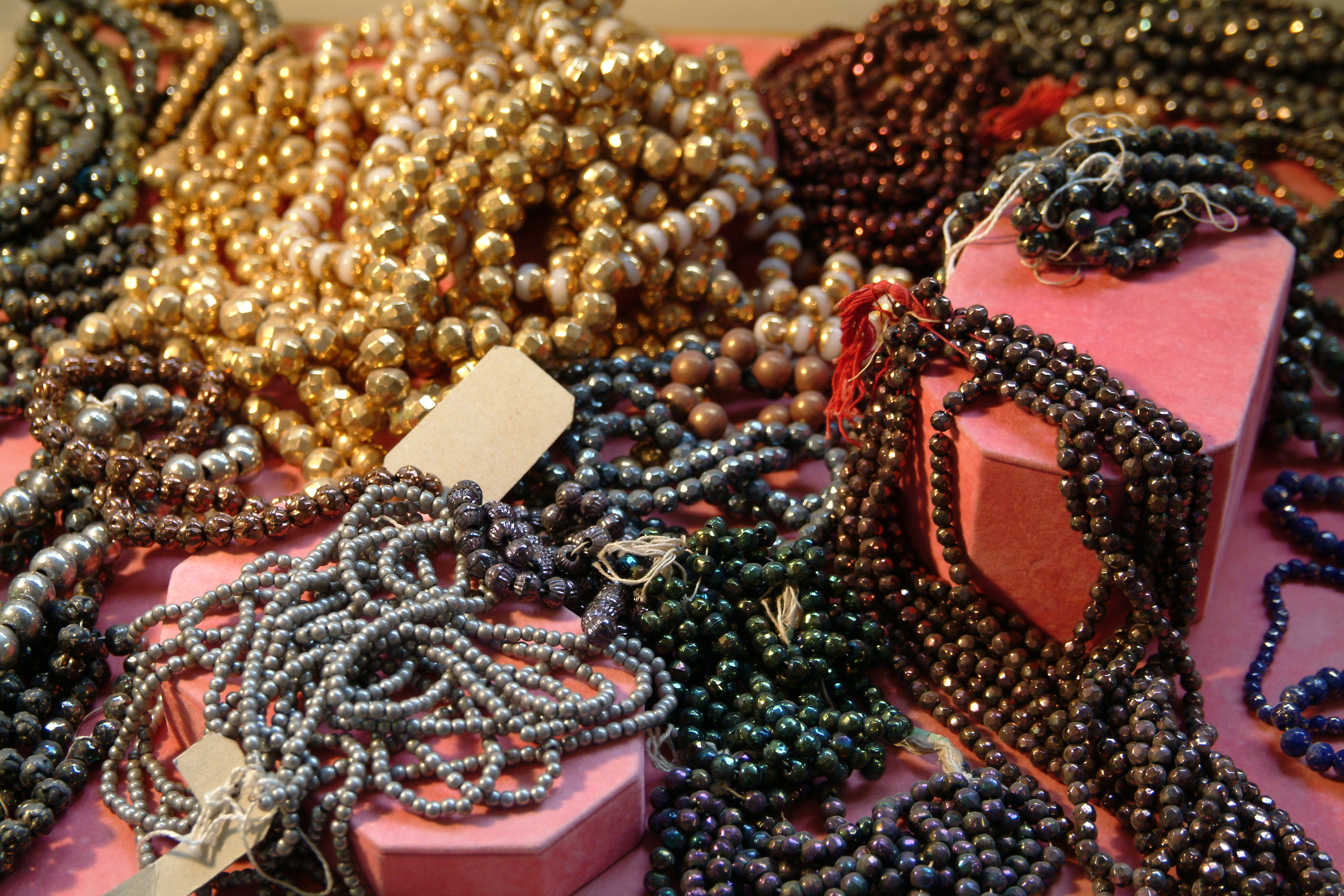 Emaux de Briare beads from the 19th century